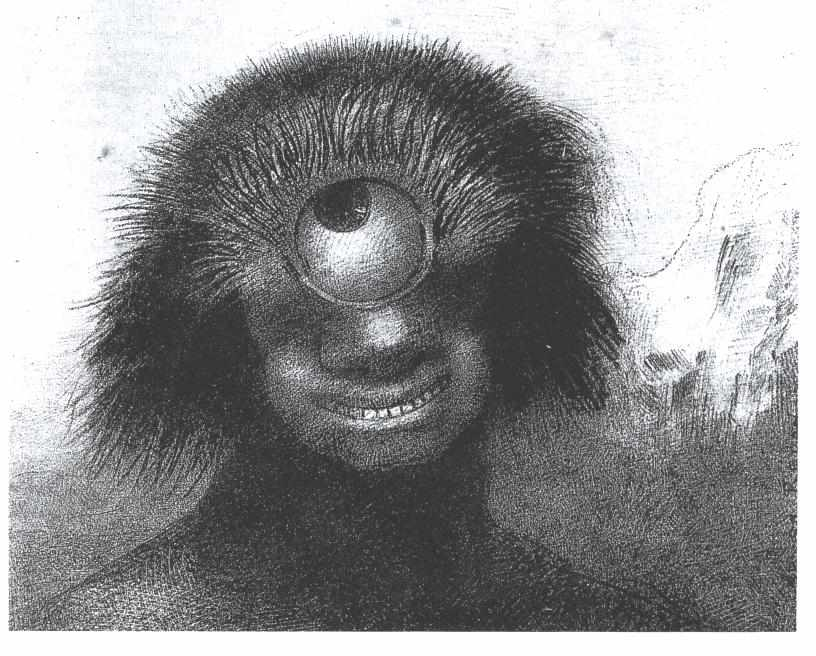 Plate III from the portfolio The Origins. Detail.